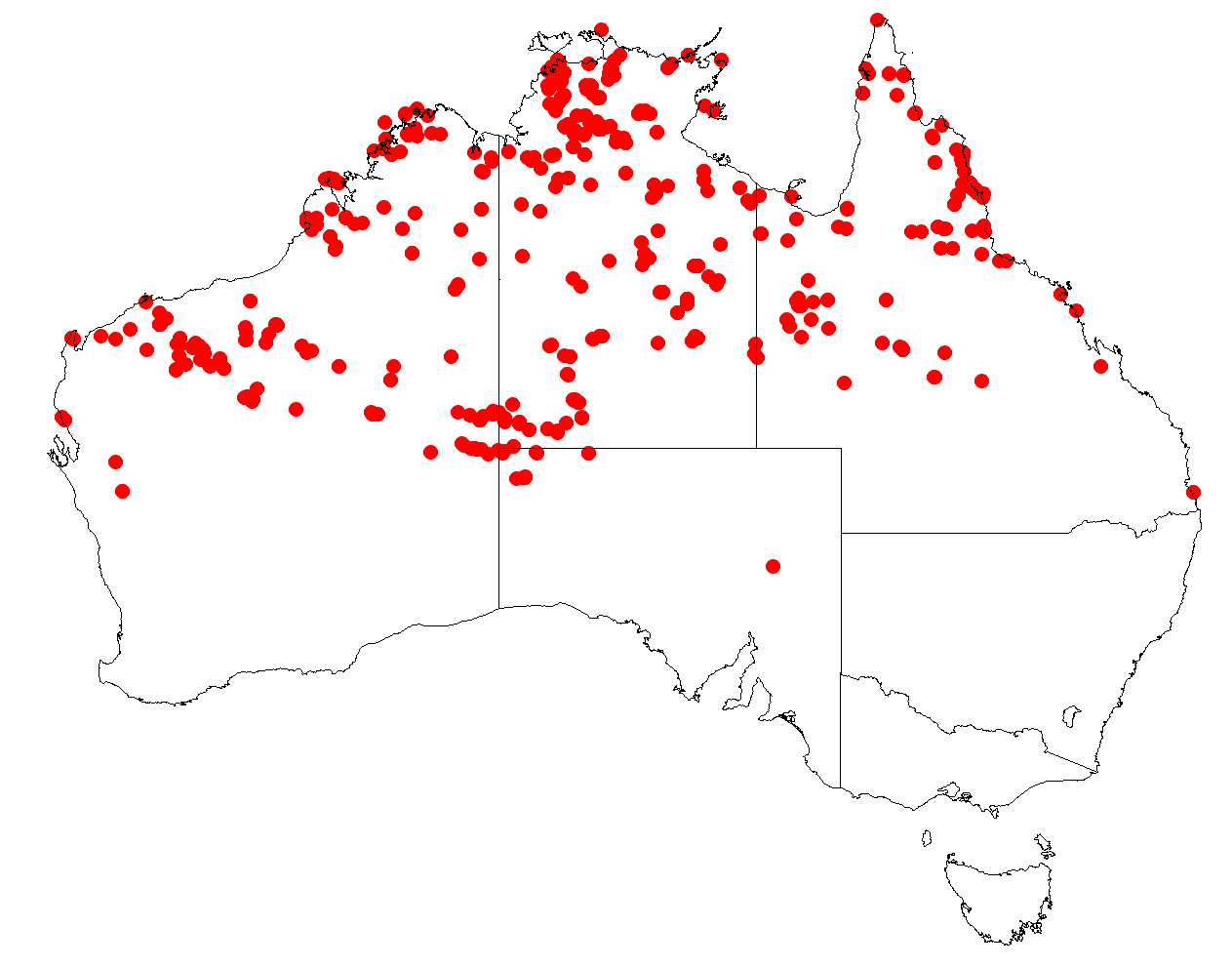 Australian distribution of Amyema sanguinea based on download from Australasian Virtual Herbarium May 9, 2018